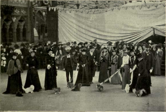 JUDGING IN THE RING AT THE CRYSTAL PALACE. (Photo : Russell & Sons, Crystal Palace.)